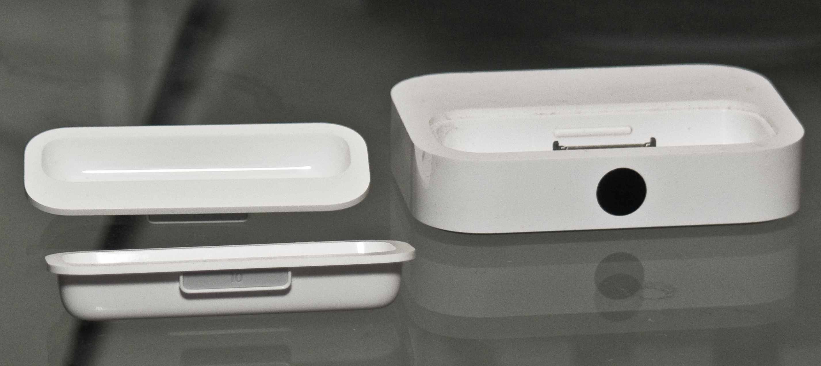 An Apple iPod/iPhone dock pictured with 2 dock adapters.